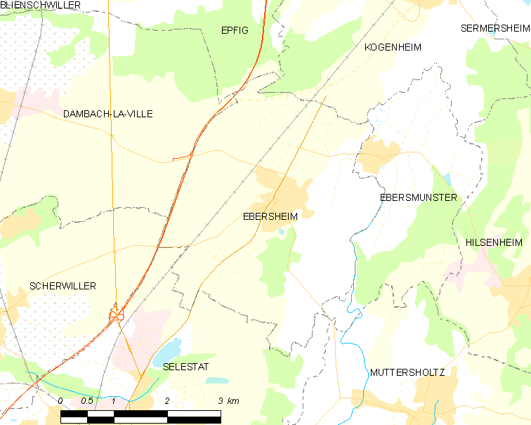 Map of French municipality